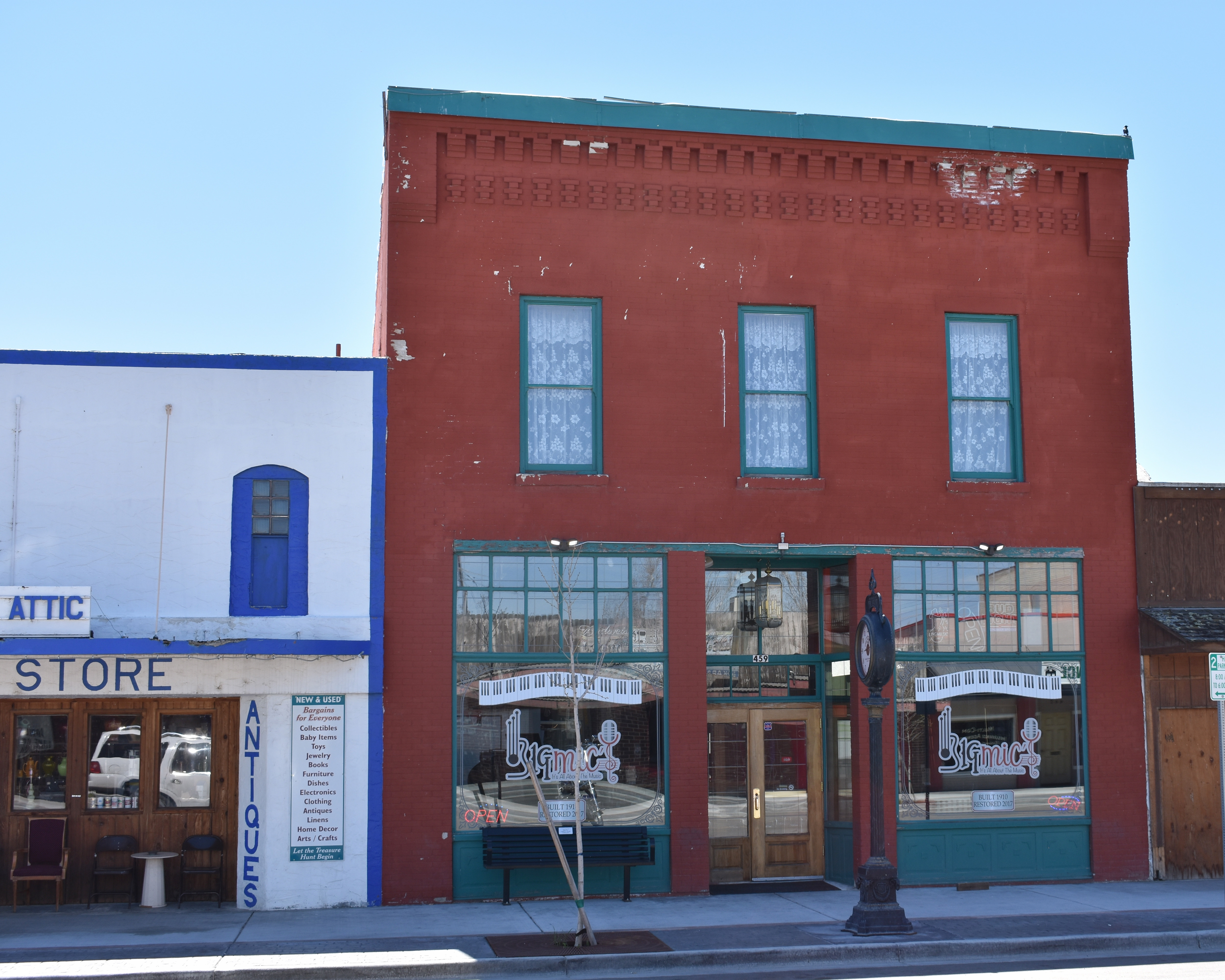 The Lilyquist-Christianson Building (1909) in Kuna, Idaho, is listed on the National Register of Historic Places.